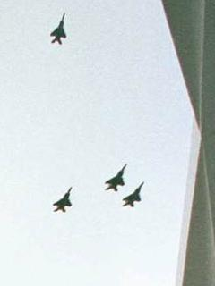 Aircraft in the missing man formation over the USS Arizona Memorial during the 57th Commemoration ceremony of the attack on Pearl Harbor.